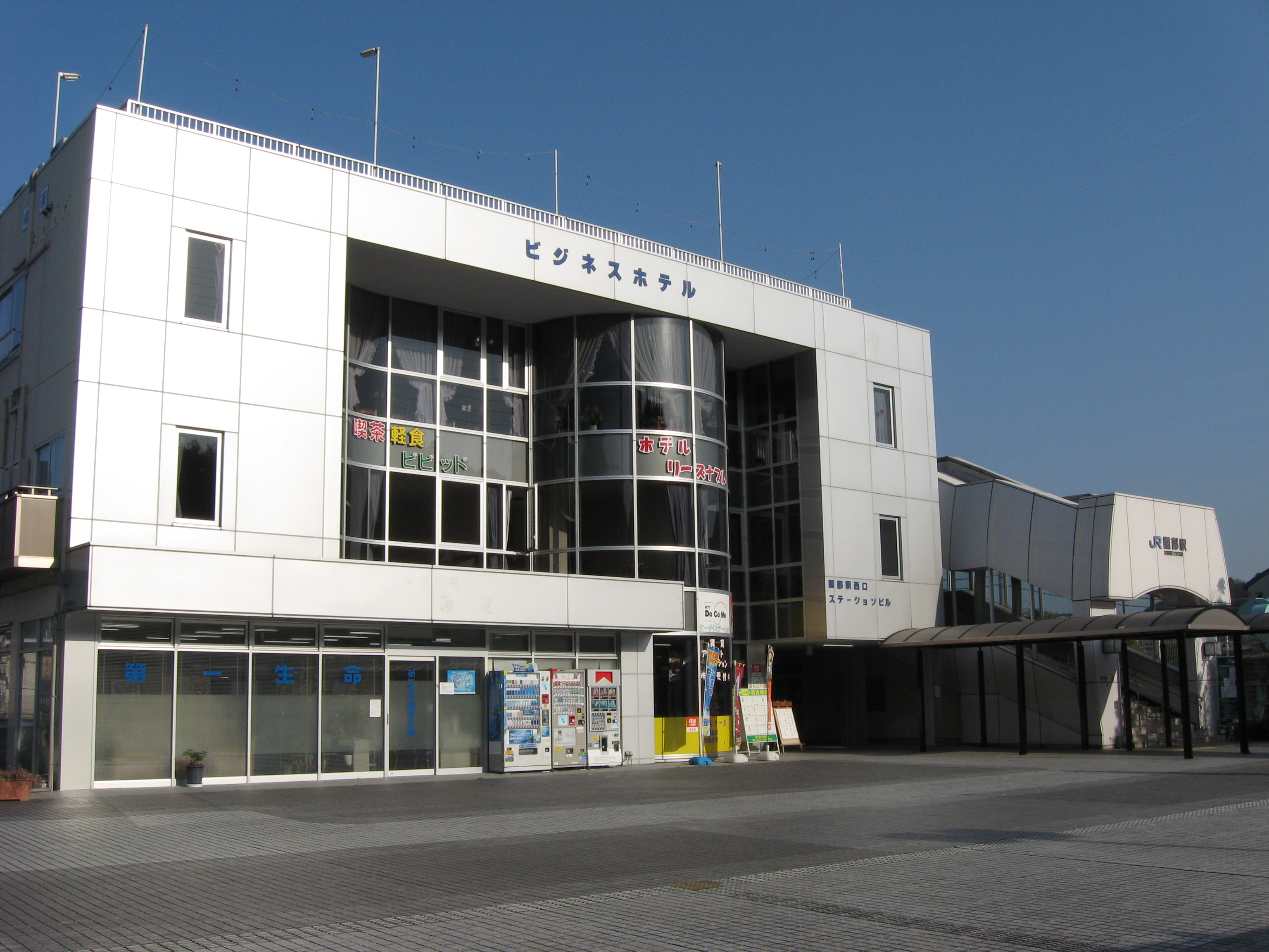 JR Sonobe Station West Gate